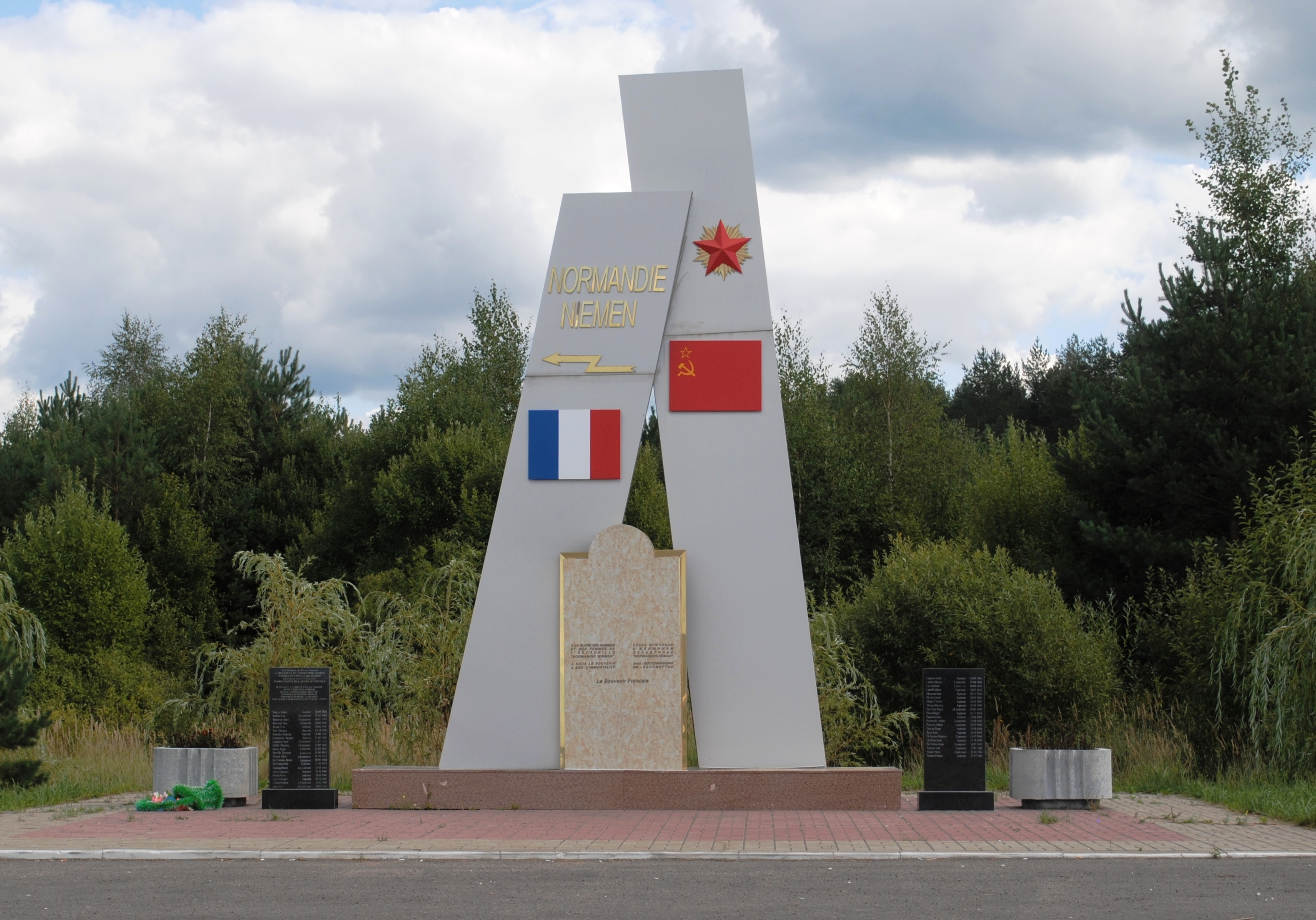 Normandie-Niemen